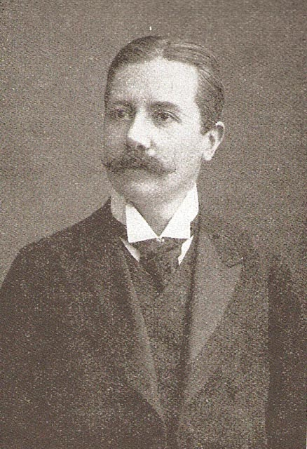 Willibald Gebhardt, Germany, member of the IOC 1896-1909 photography, reproduction